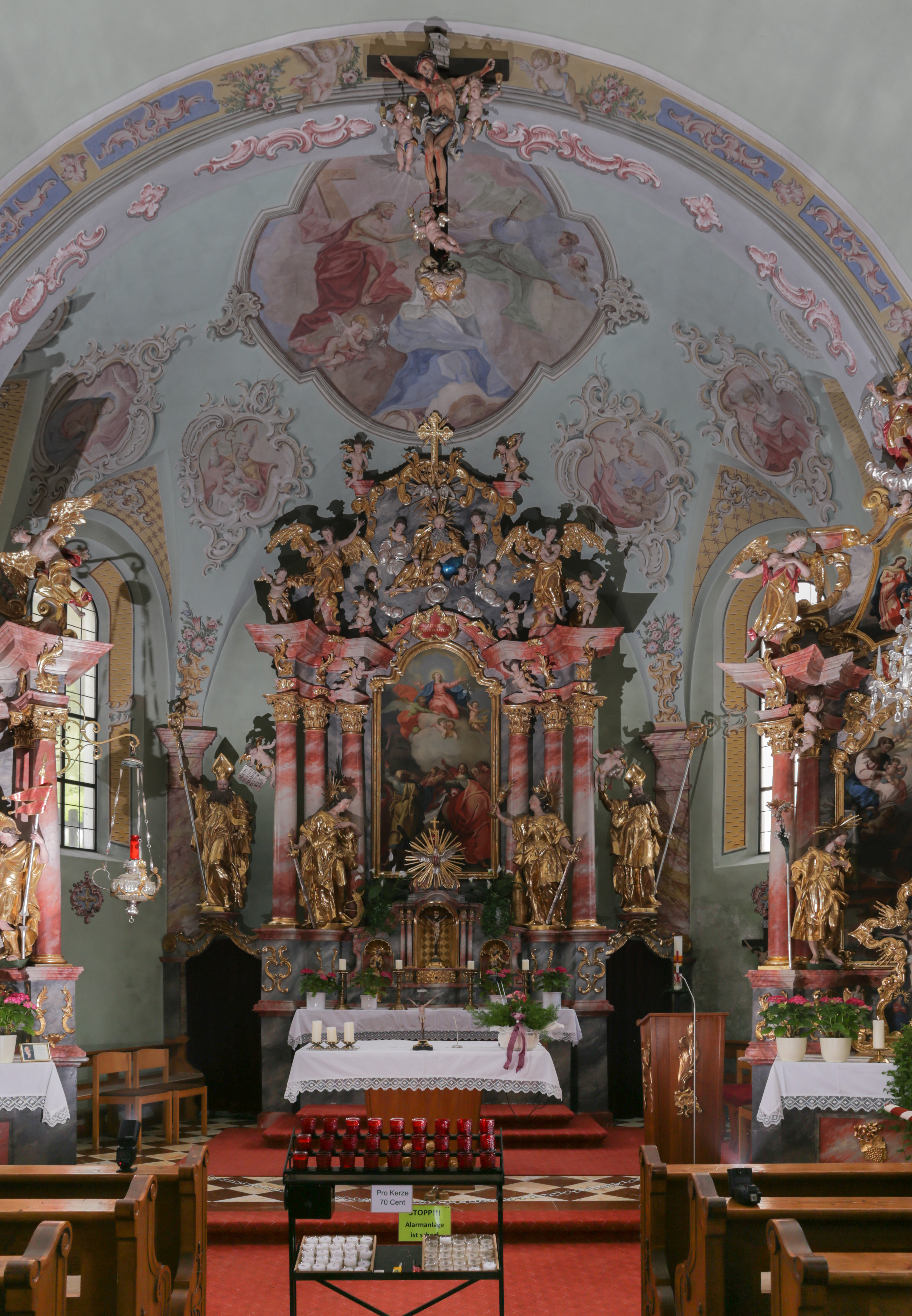 Parish church, Fendels, Tyrol Dieses Foto wurde im Rahmen des von Wikimedia Österreich unterstützten ProjektsWiki Takes Nordtiroler Oberland erstellt. The making of this work was supported by Wikimedia Austria. For other files made with the support of Wikimedia Austria, please see the category Supported by Wikimedia Österreich.